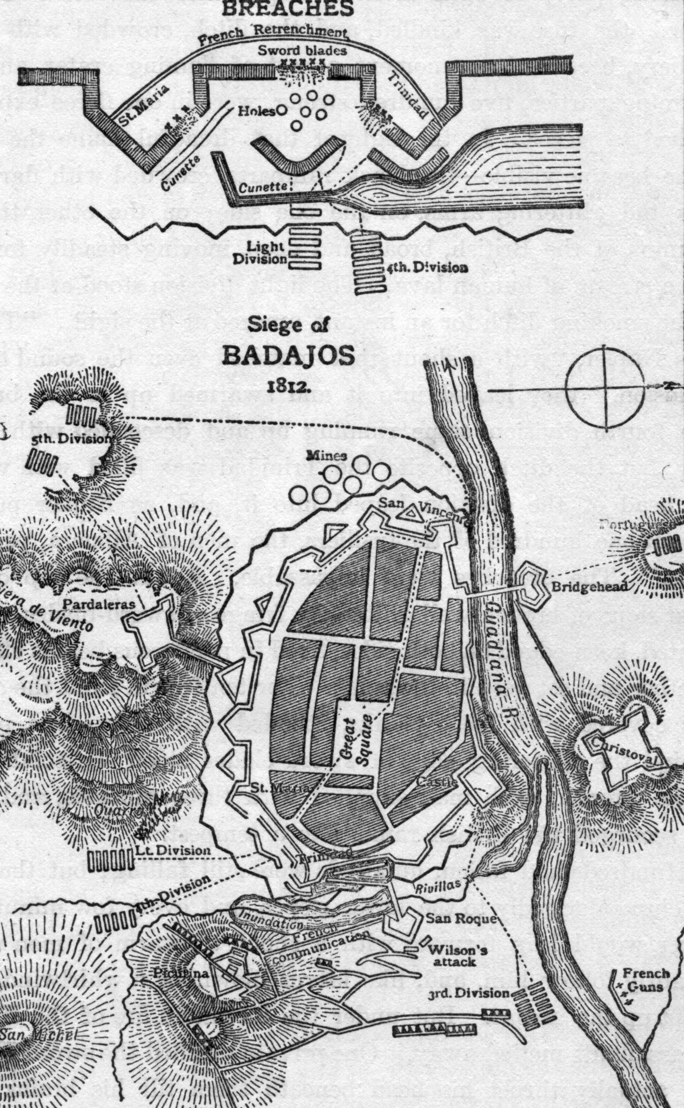 Illustration of siege of Badajos in 1812.